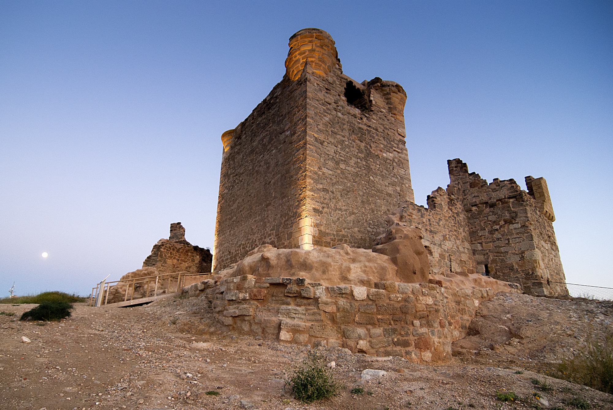 Al fondo la superluna, que se ha quedado en minipunto.